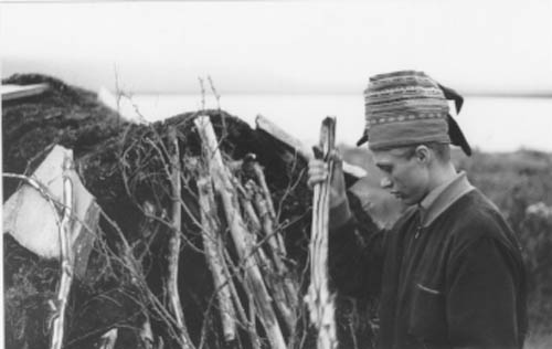 Nils-Aslak Valkeapää in front of goahti (a sámi hut; this hut is made of peat) in the Kaijukka sameby.